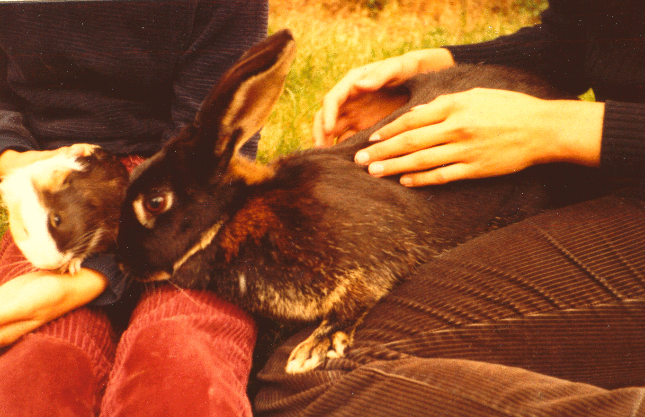 Tan rabbit and a guinea pig of unknown breed.